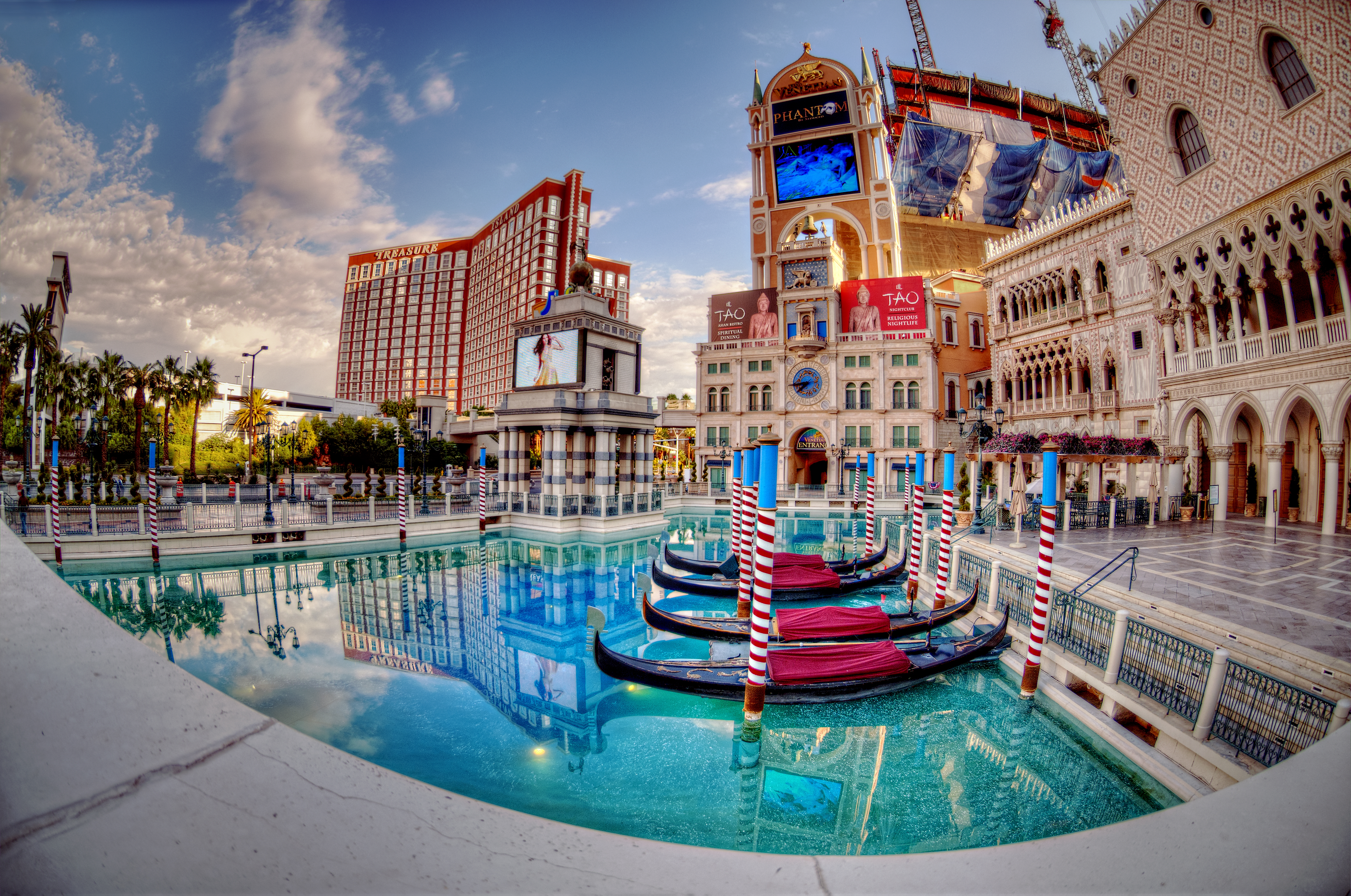 The Venetian, Las Vegas, United States